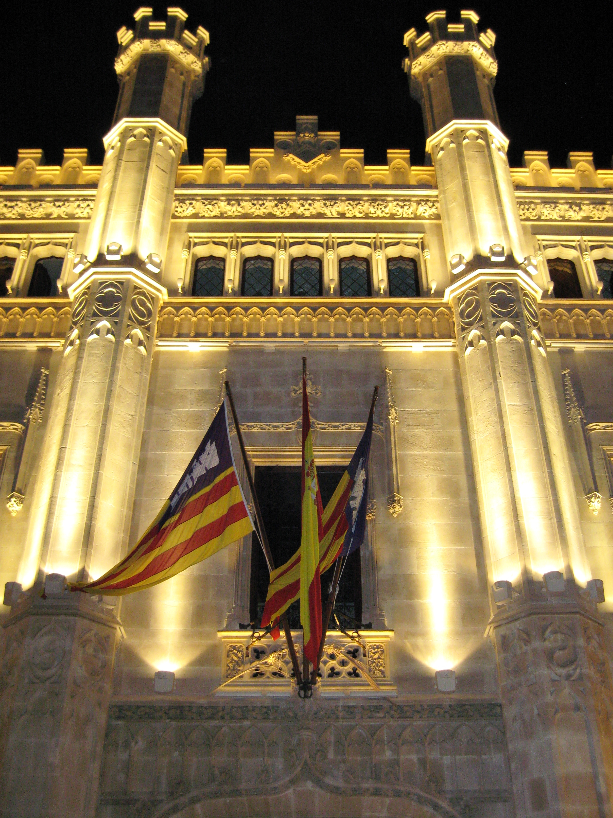 Building of the Consell Insular, Palma de Mallorca, Mallorca, Spain